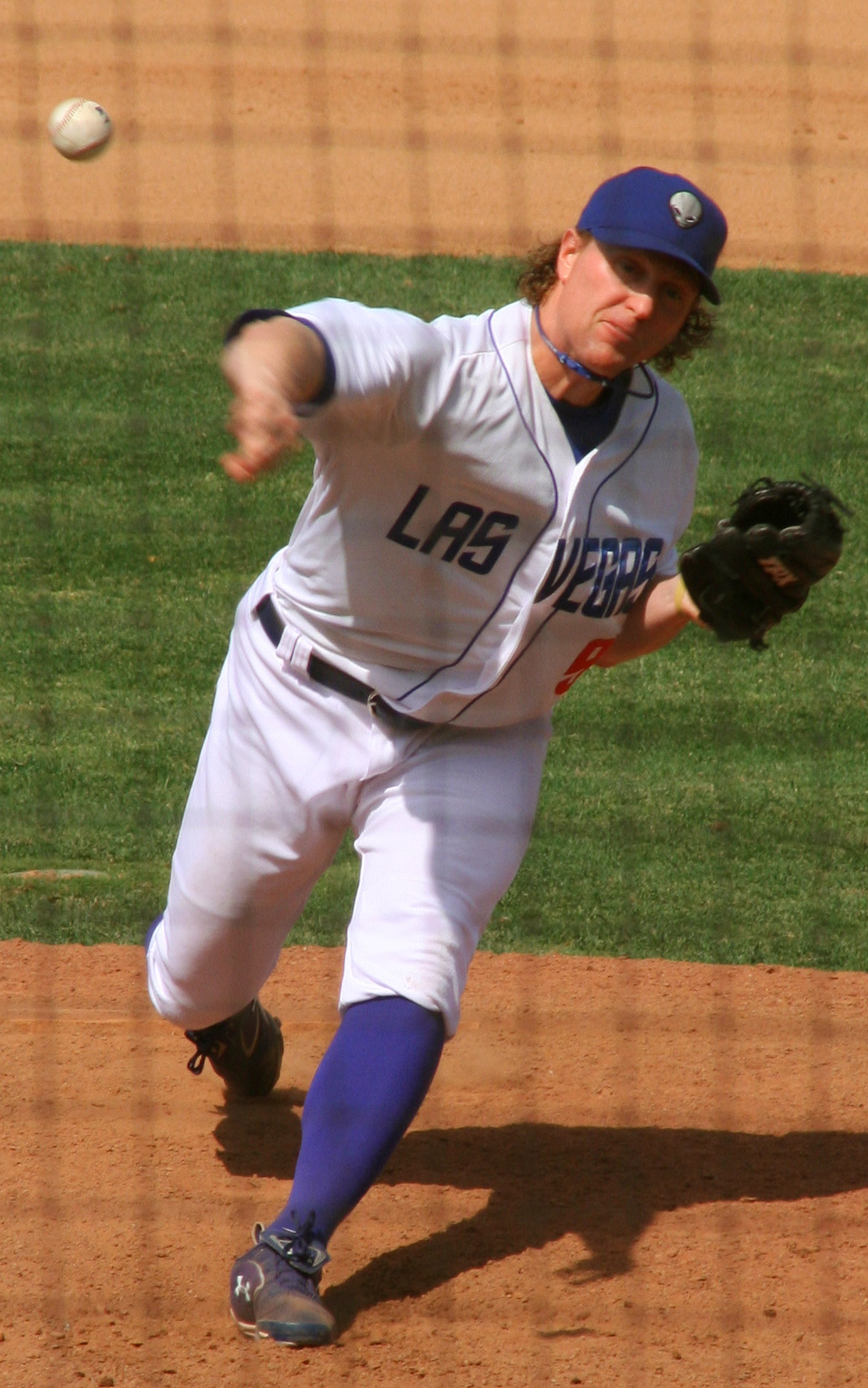 Greg Jones delivers a pitch for the Las Vegas 51s during a 2008 game at Cashman Field in Las Vegas, Nevada.